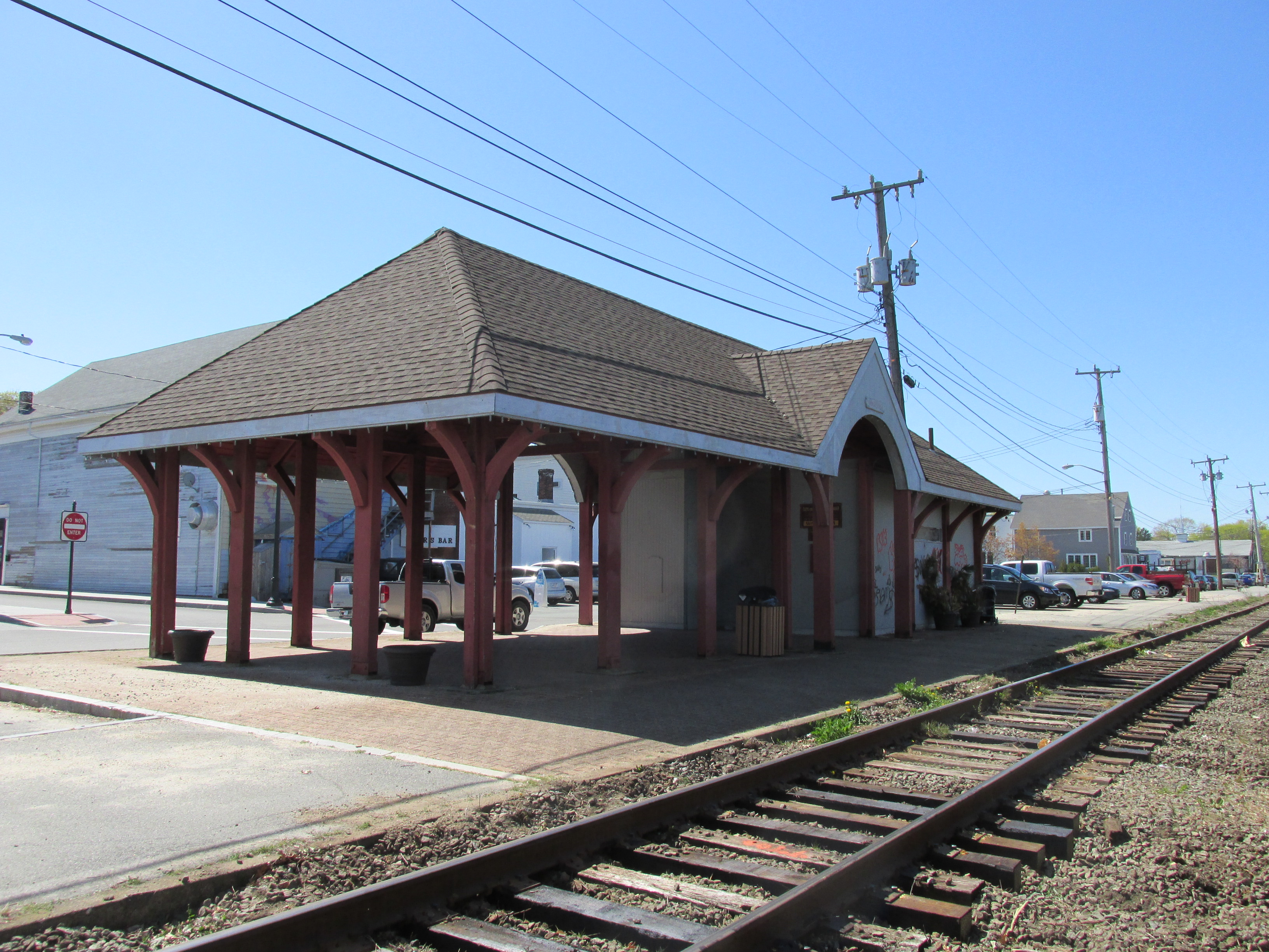 Wareham Station, Wareham Massachusetts